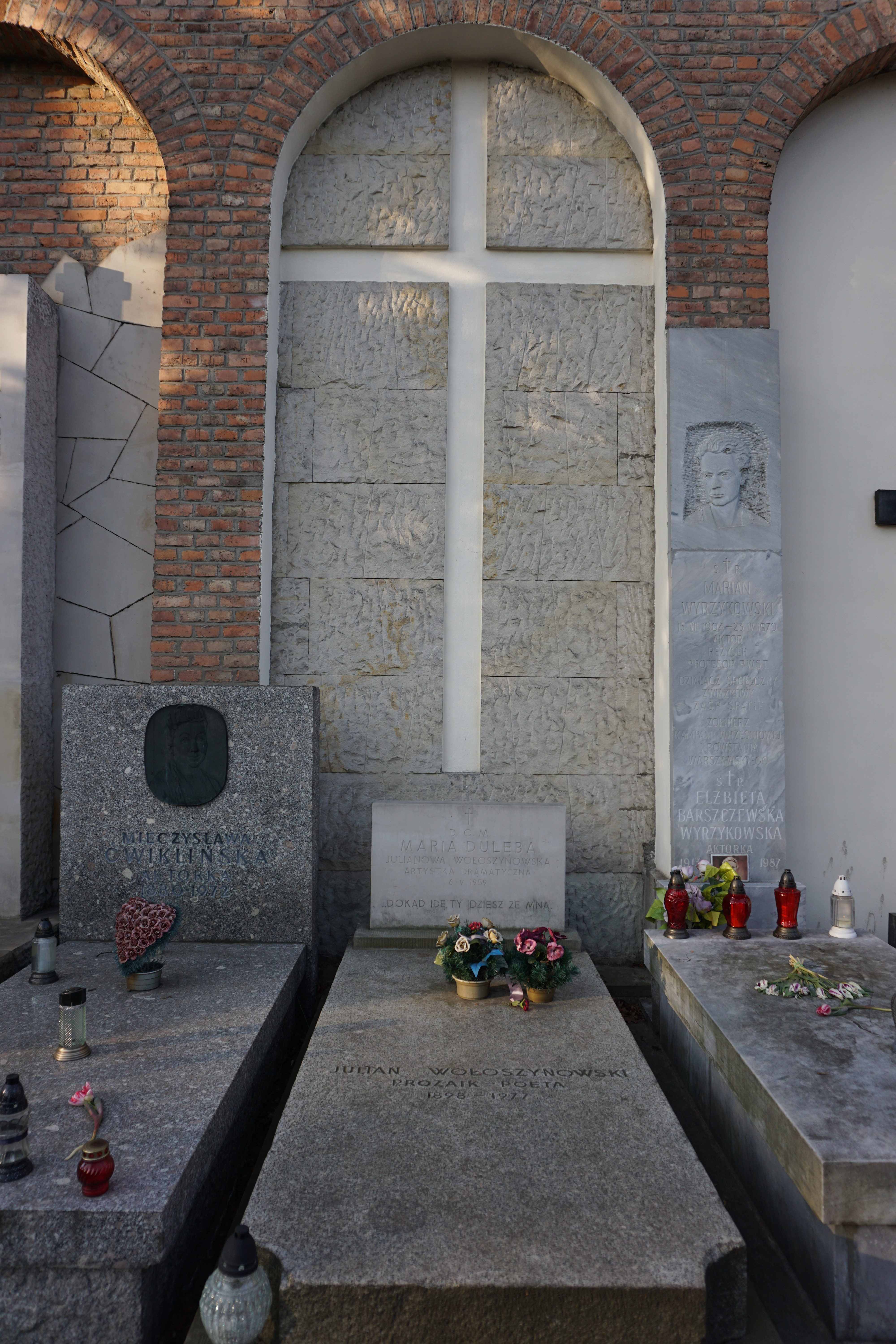 The grave of Maria Dulęba at the Powązki Cemetery (Avenue of Deserved, grave 97)